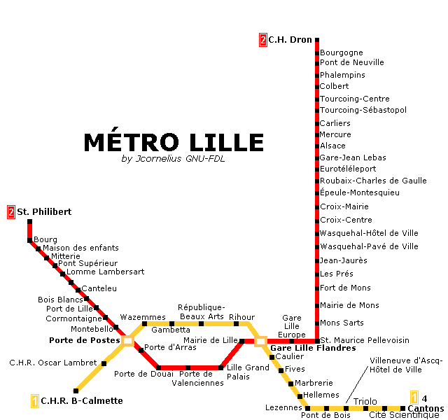 Map of the Lille Metro